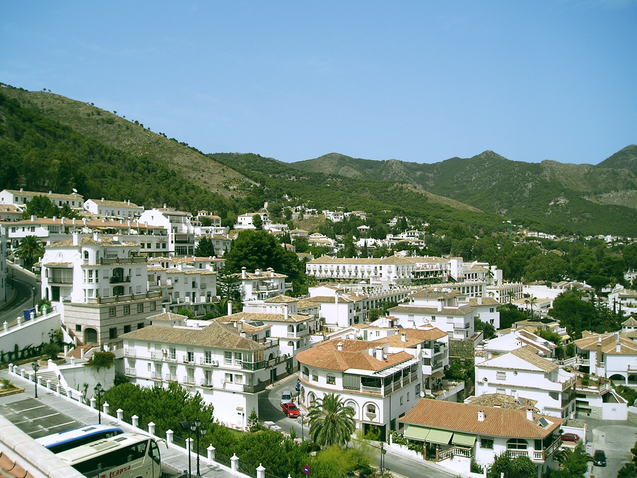 View of Mijas